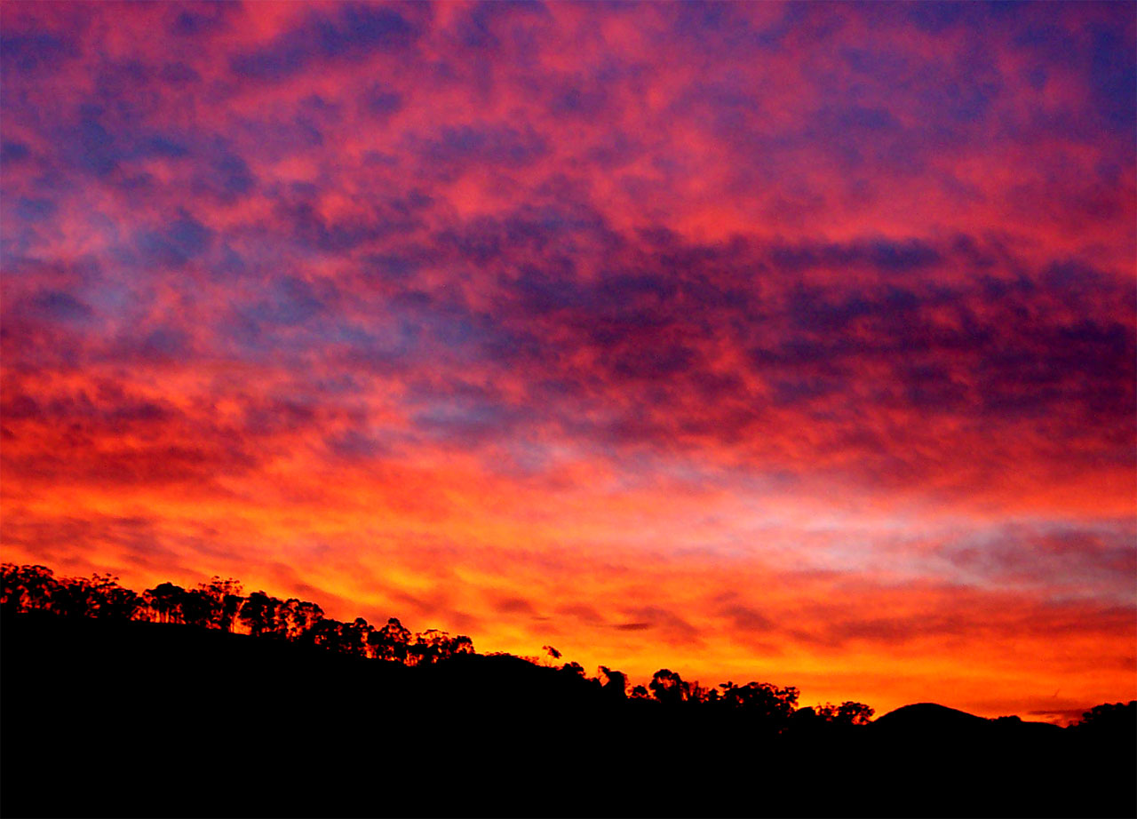 A Crimson Sunset